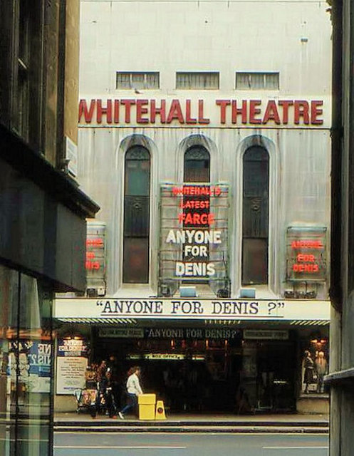 The Whitehall Theatre opened in 1930 and became the Trafalgar Studios TQ3080 : Trafalgar Studios, Whitehall SW1 in 2004. It was a household name with the televised “Whitehall Farces” and later with “Anyone for Denis?” – a comical production based on the fictional life of the late Denis Thatcher.